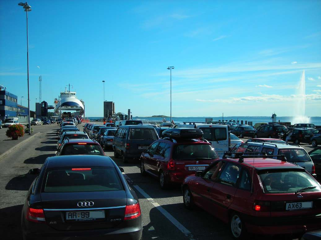 The ferry at Moss in Norway bound for Horten.